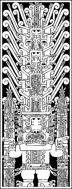 The Raimondi Stela, that was found out of situ at Chavín de Huantar (Peru) by prominent Italian-born Peruvian geographer and scientist Antonio Raimondi